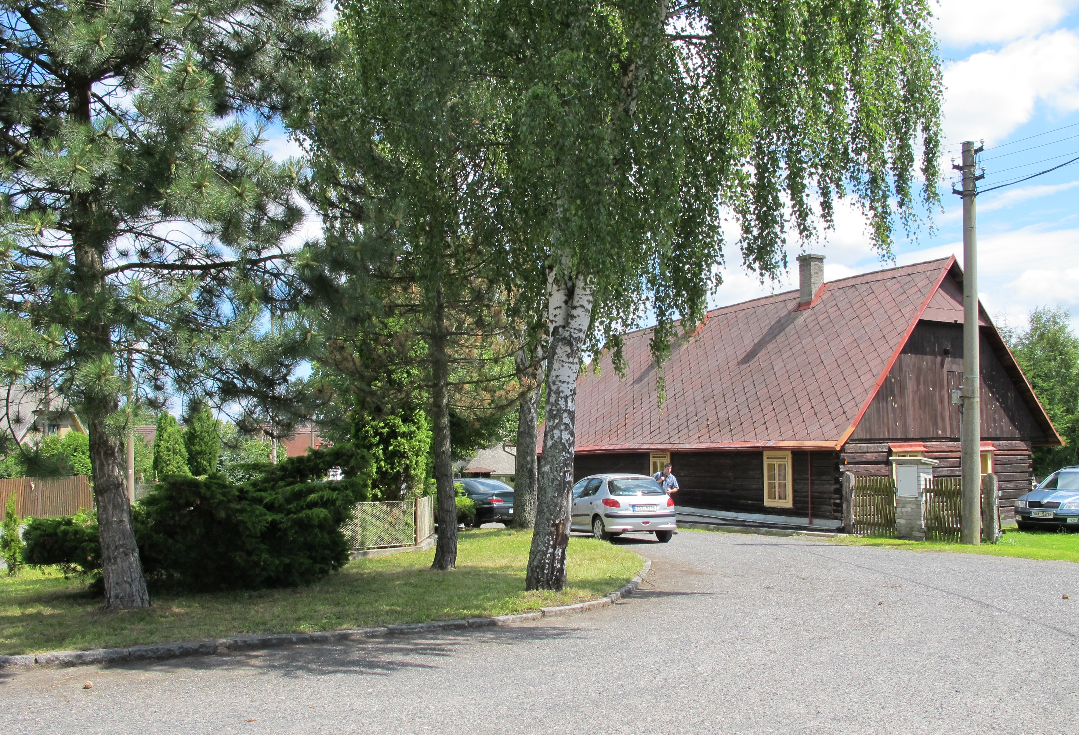 Hutě pod Třemšínem in Příbram District, Czech Republic